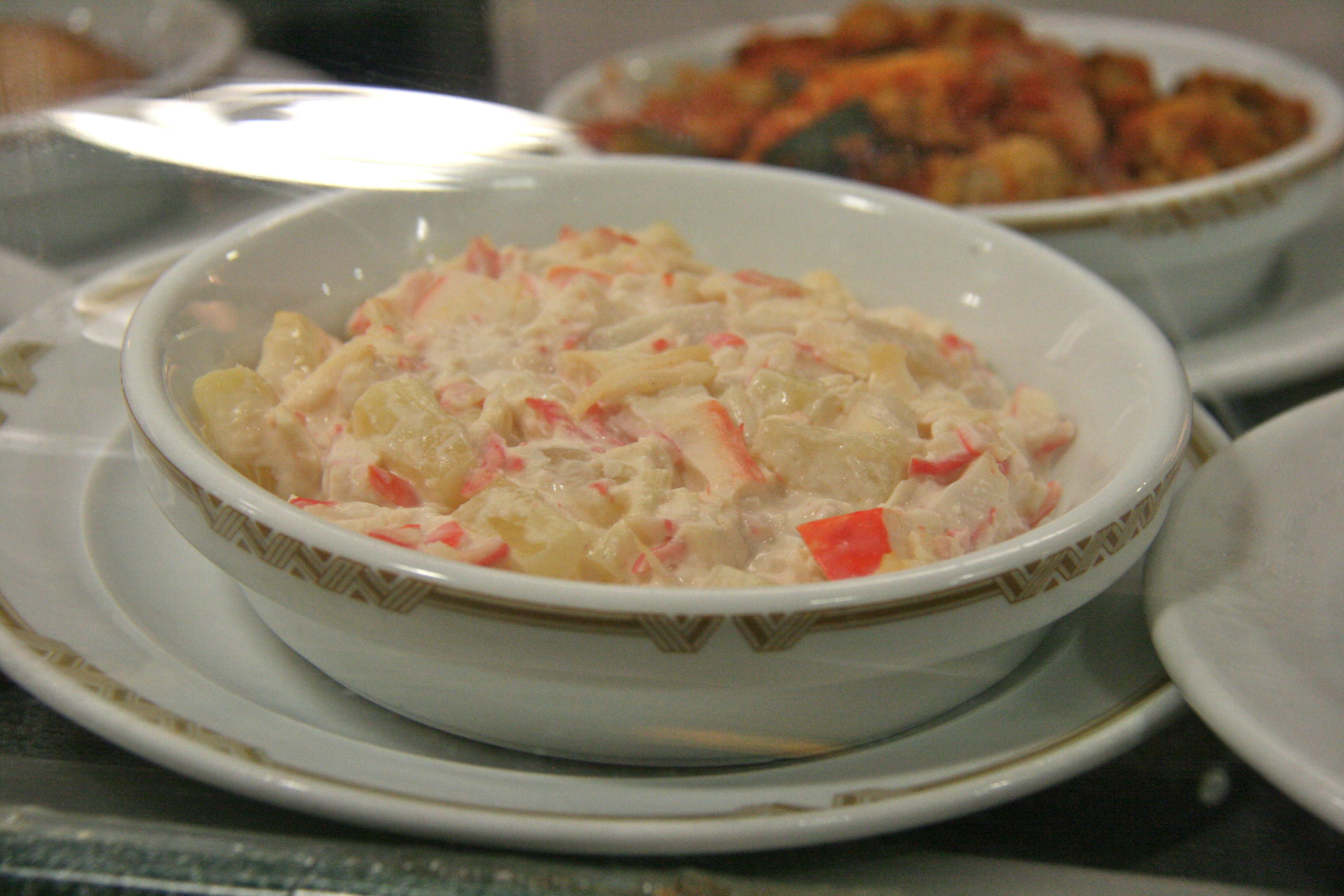 A Spanish crab salad with mayonnaise.